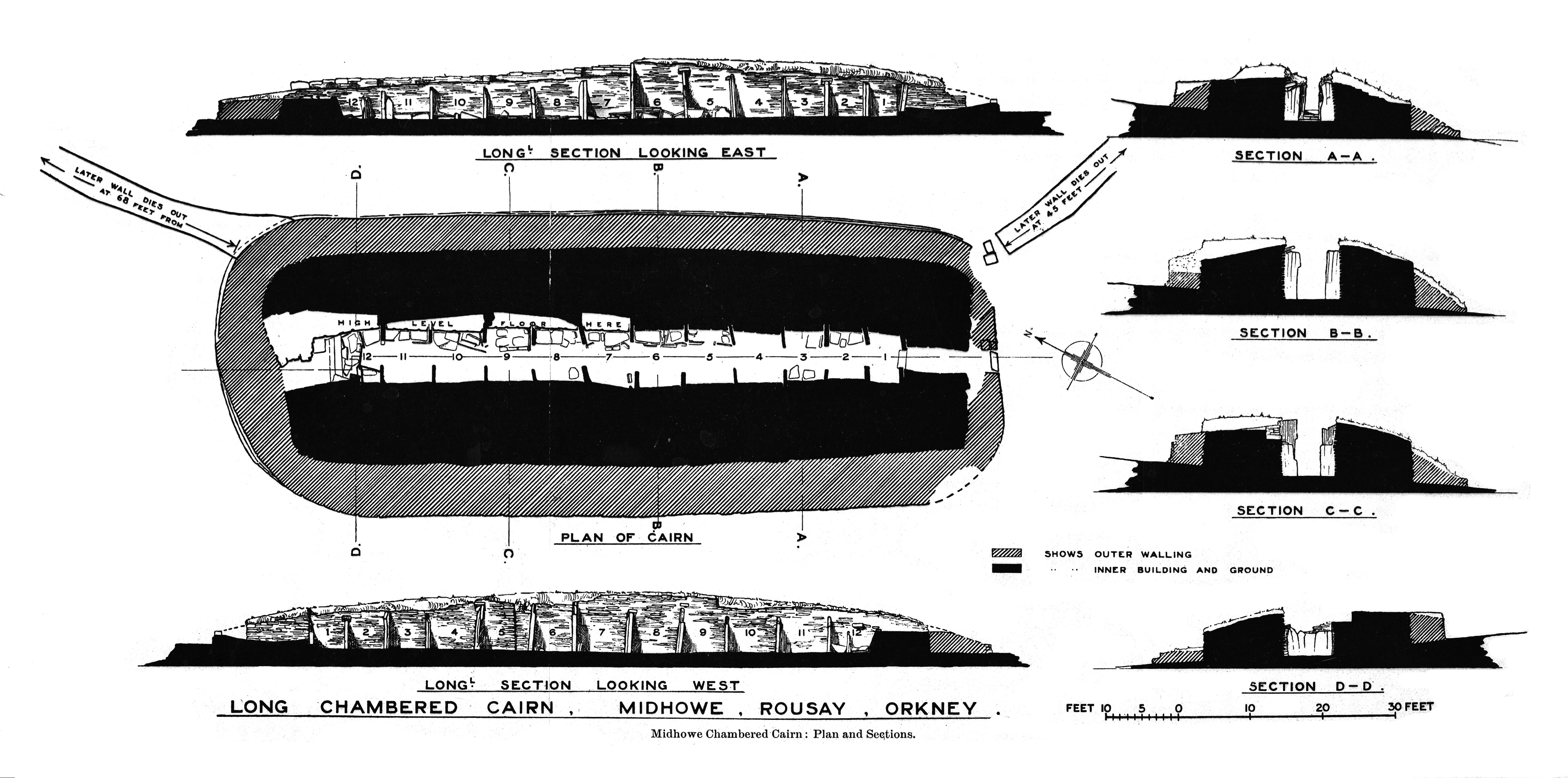 Long chambered burial cairn, Midhowe, Rousay, Orkney. Wellcome Images Keywords: disposal of the dead; prehistoric; Archaeology; mortuary techniques